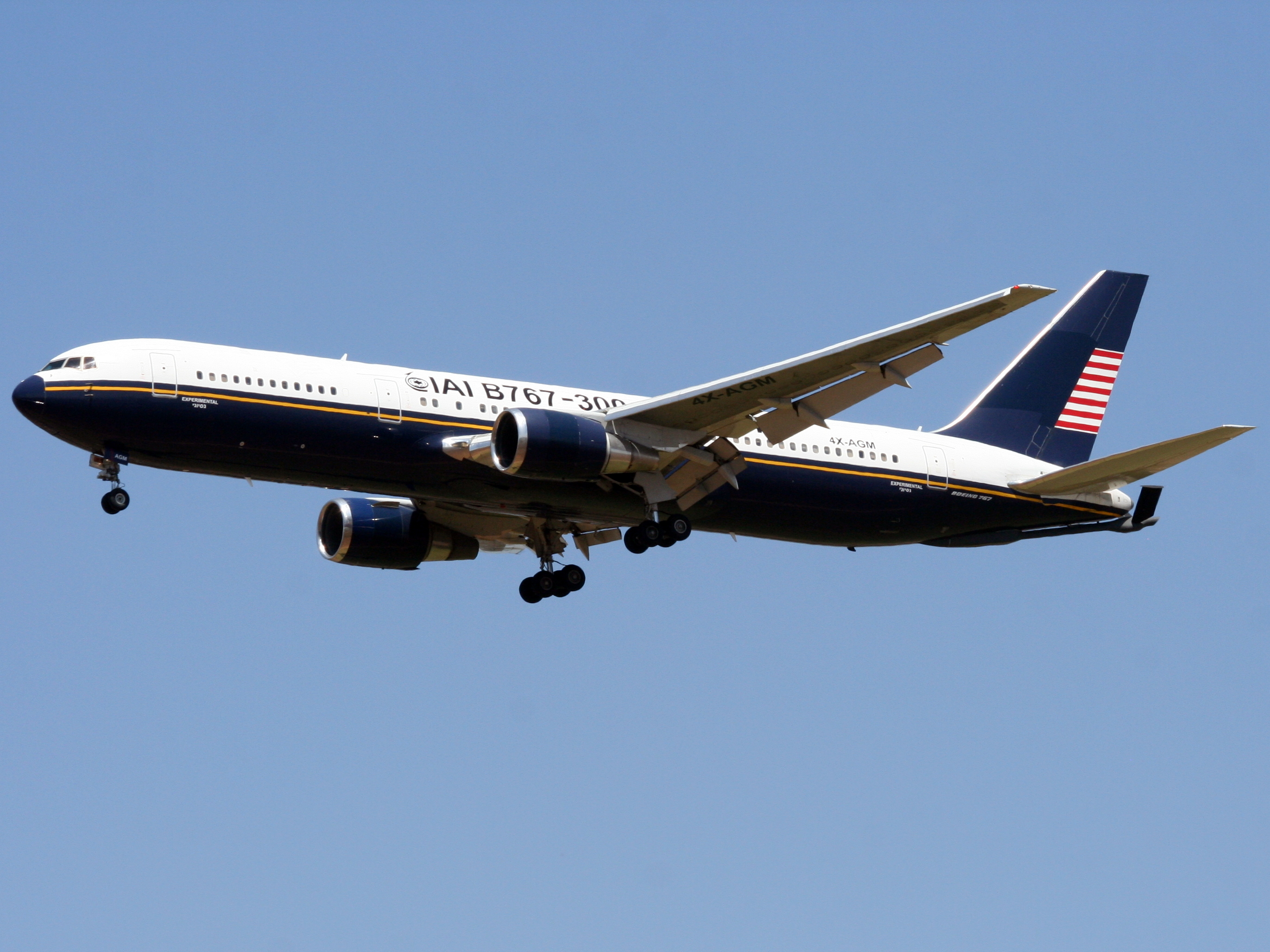 Landing at Ben Gurion International airport.